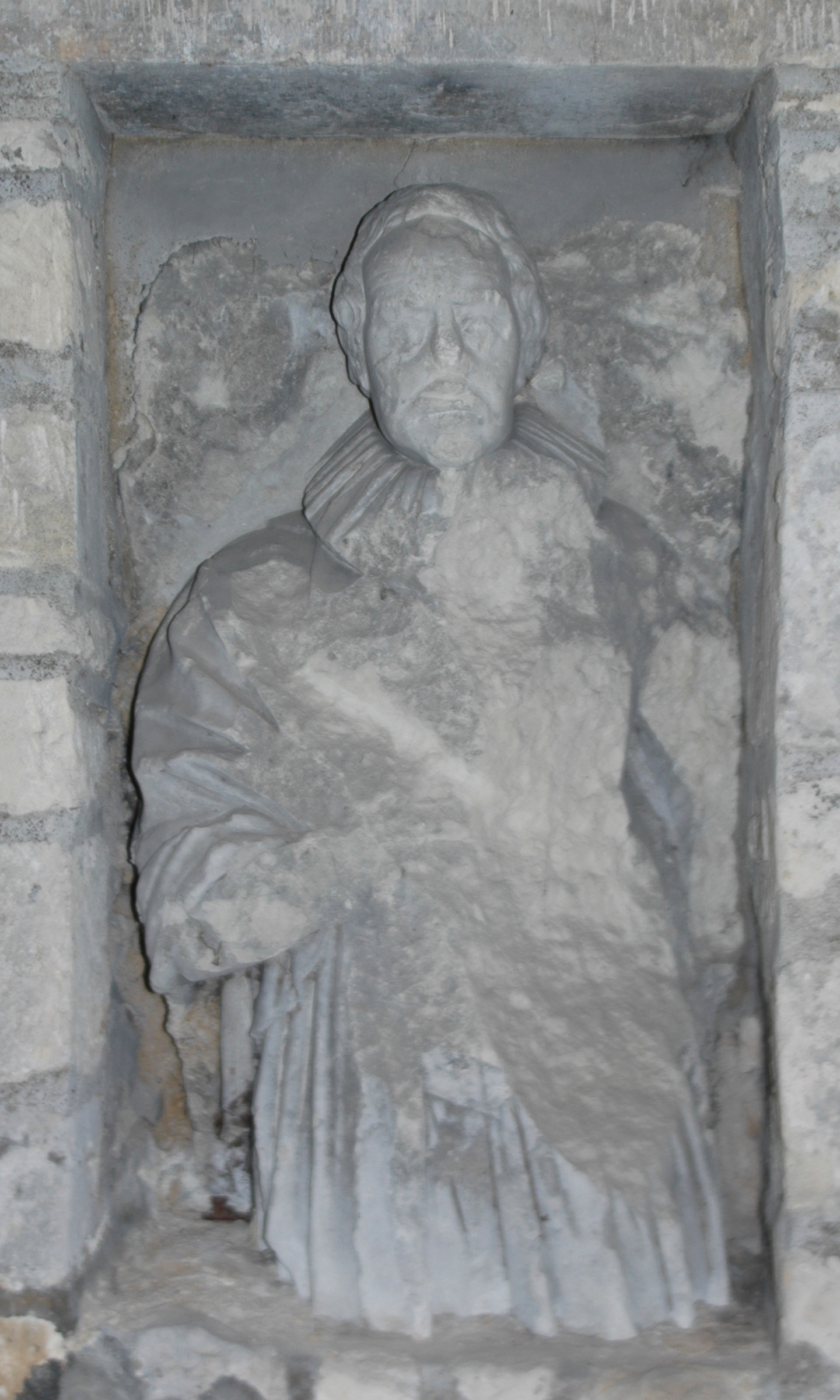 Early 17th century effigy in niche in chancel of St Giles' parish church, Noke, Oxfordshire.